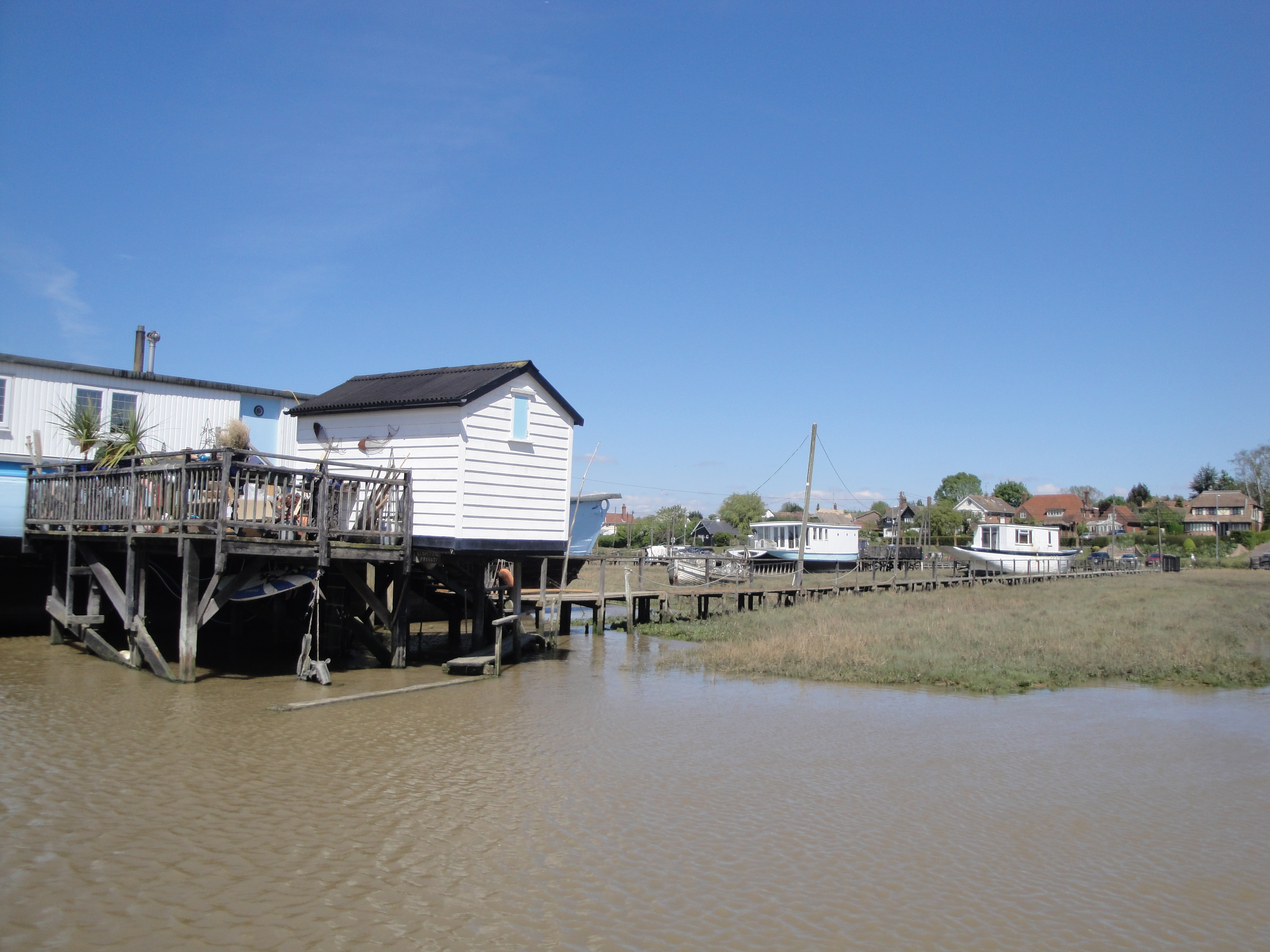 Mudflats near the harbour of West Mersea, Essex. There are several houseboats which are located on the mudflats.